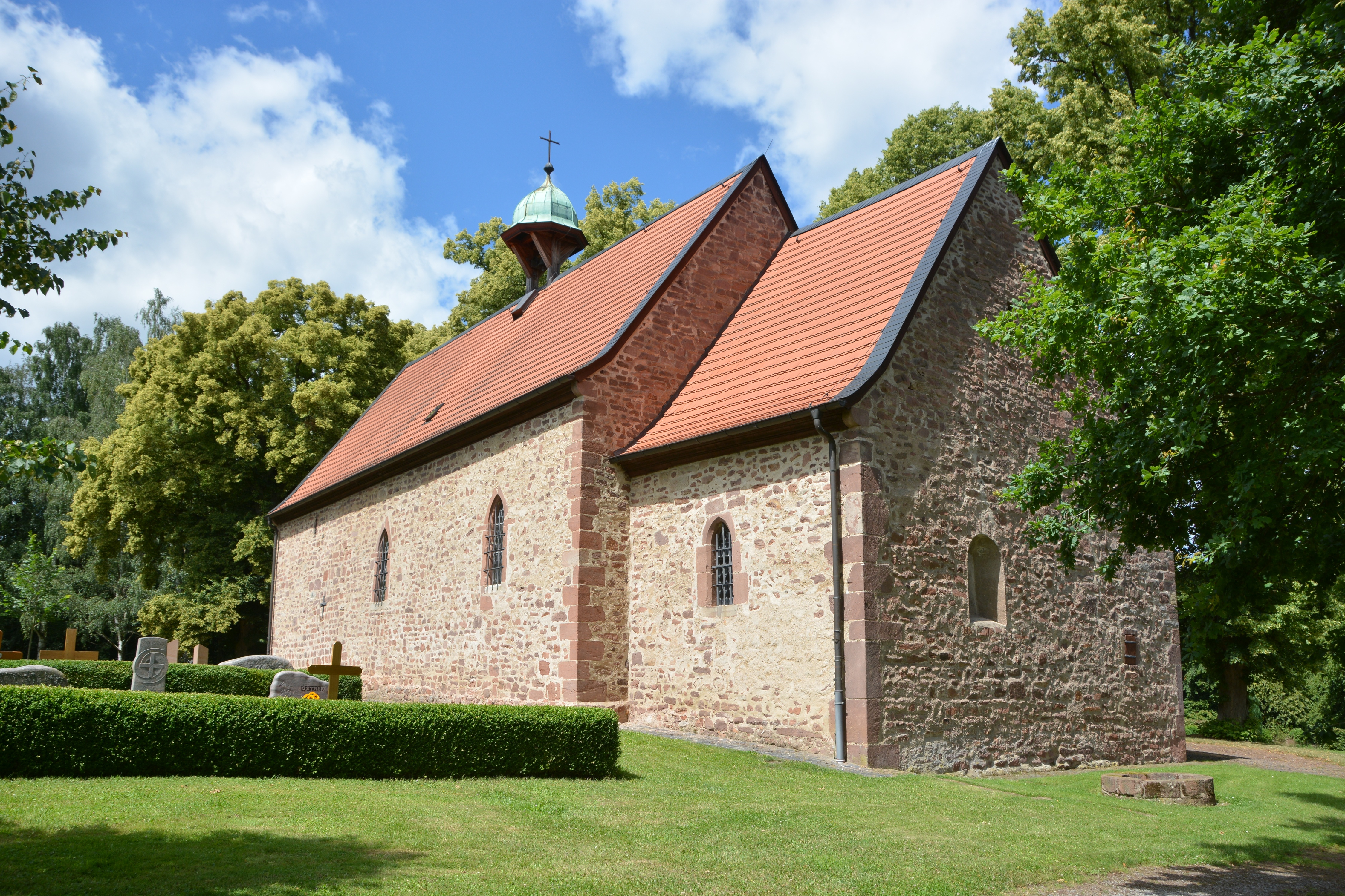 Church St. Brigida upon Büraberg near Fritzlar-Ungedanken, Hesse, Germany